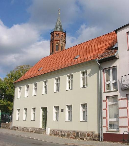 Koch-House in Niemegk, in this house worked the German physician Robert Koch in 1868/69. The town Niemegk is a part of the Potsdam Mittelmark, state Brandenburg, Germany.